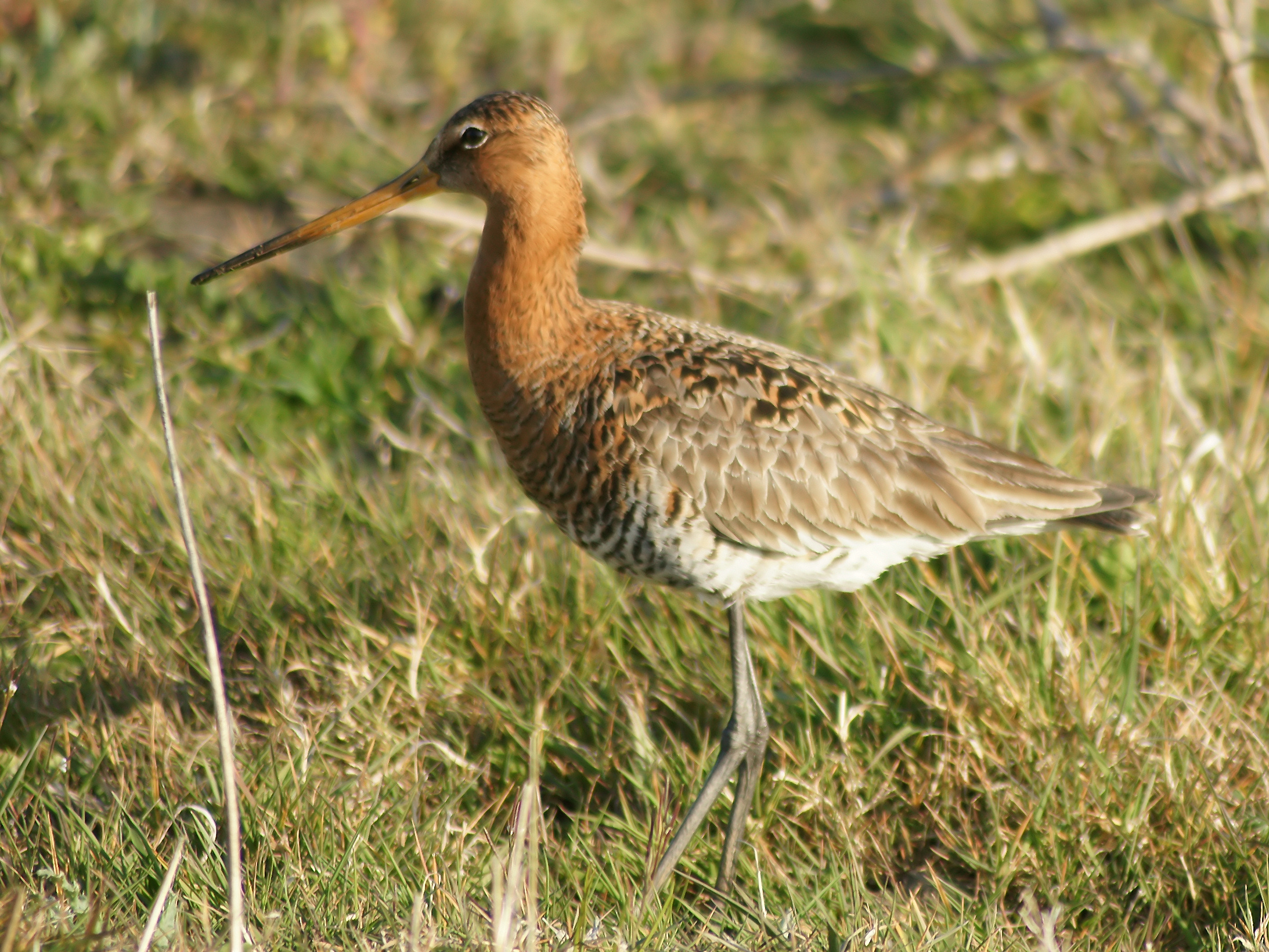 Black-tailed Godwit, Uitkerkse Polders, Belgium